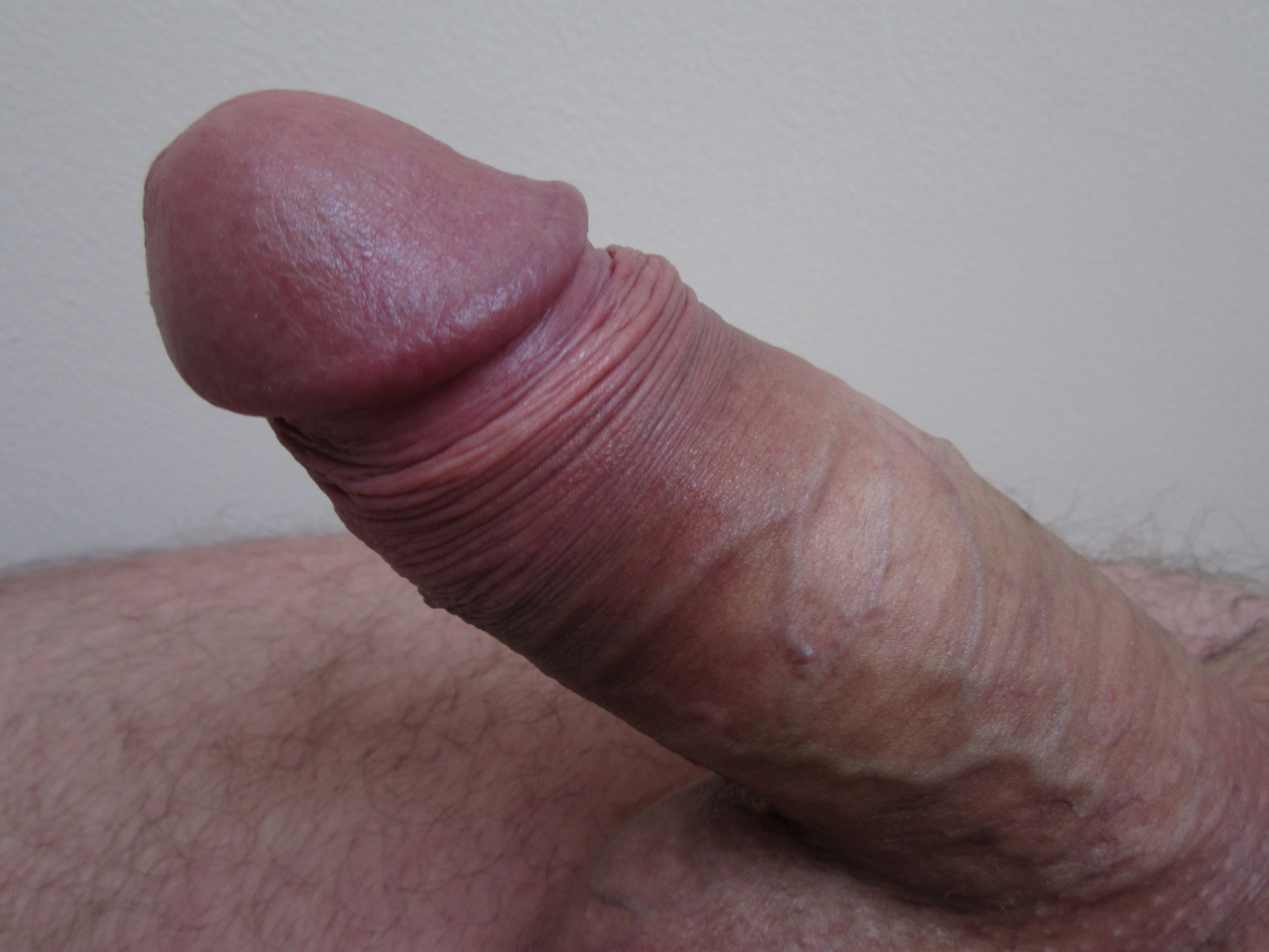 Corona of human glans penis, pulled back foreskin